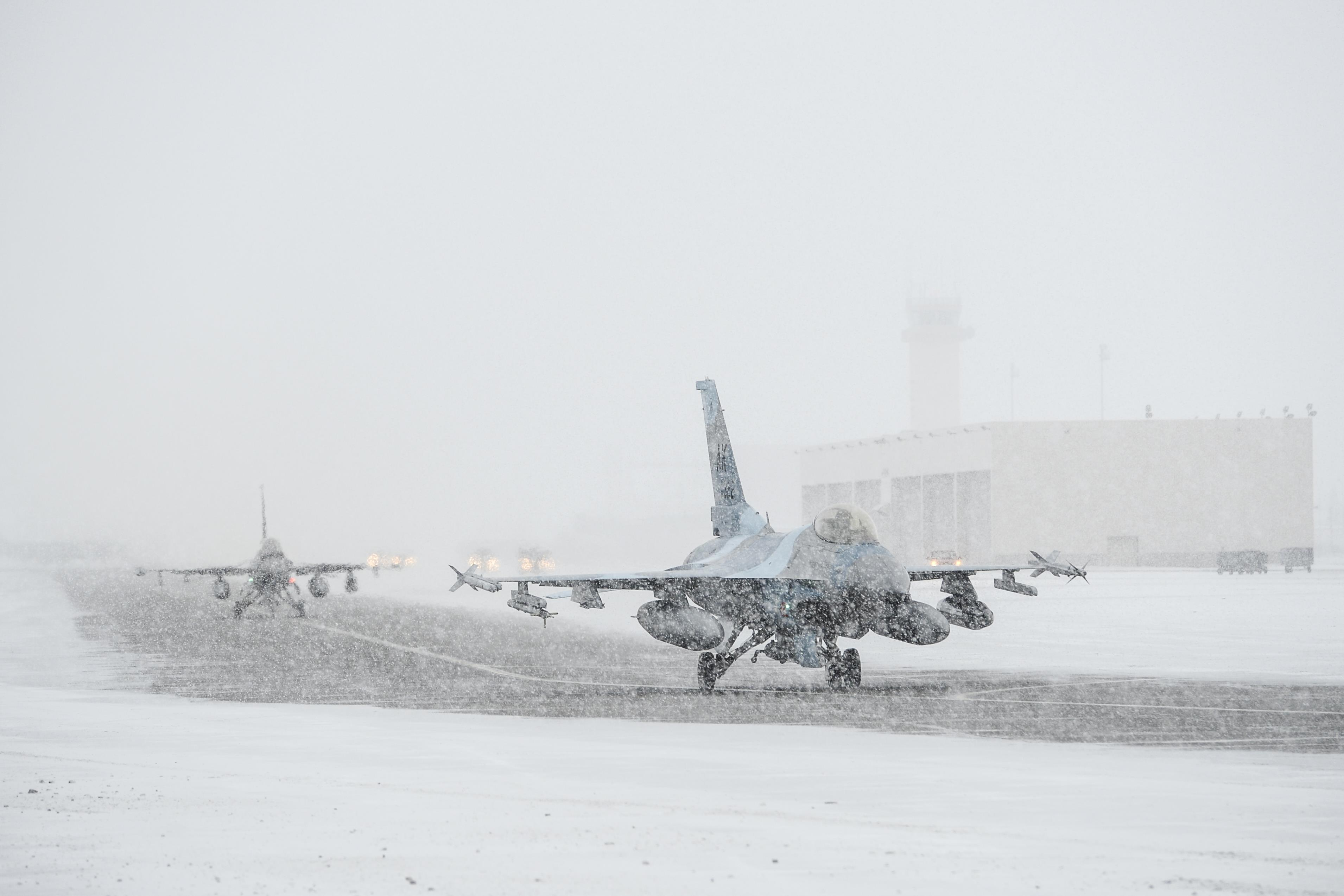 F-16 Fighting Falcons taxi down the runway March 3, 2015, at Eielson Air Force Base, Alaska. The F-16s are assigned to the 18th Aggressor Squadron at Eielson AFB. Aggressor pilots returned after completing a mobile training team exercise